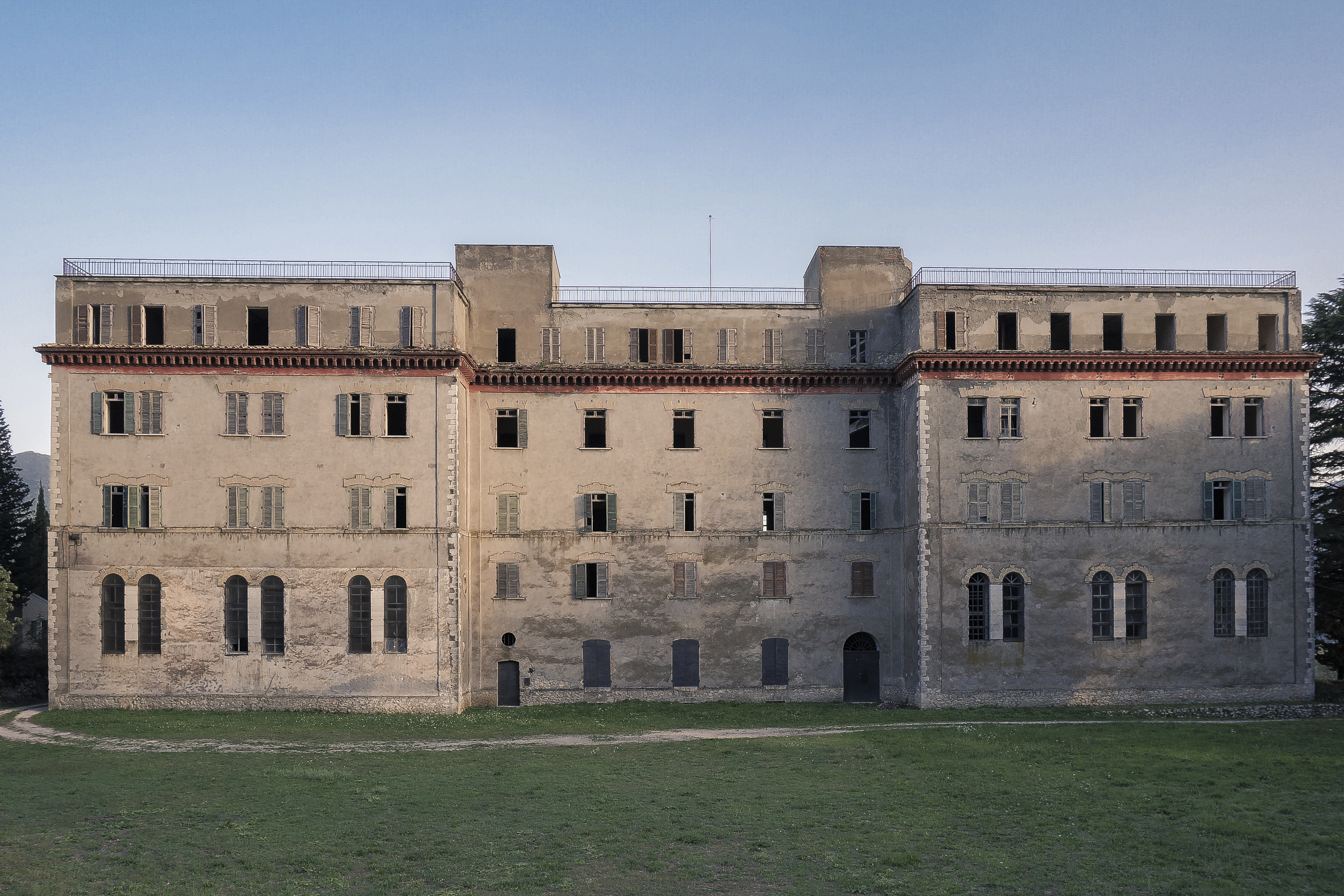 frontal view of the monastery This is a photo of a monument which is part of cultural heritage of Italy.